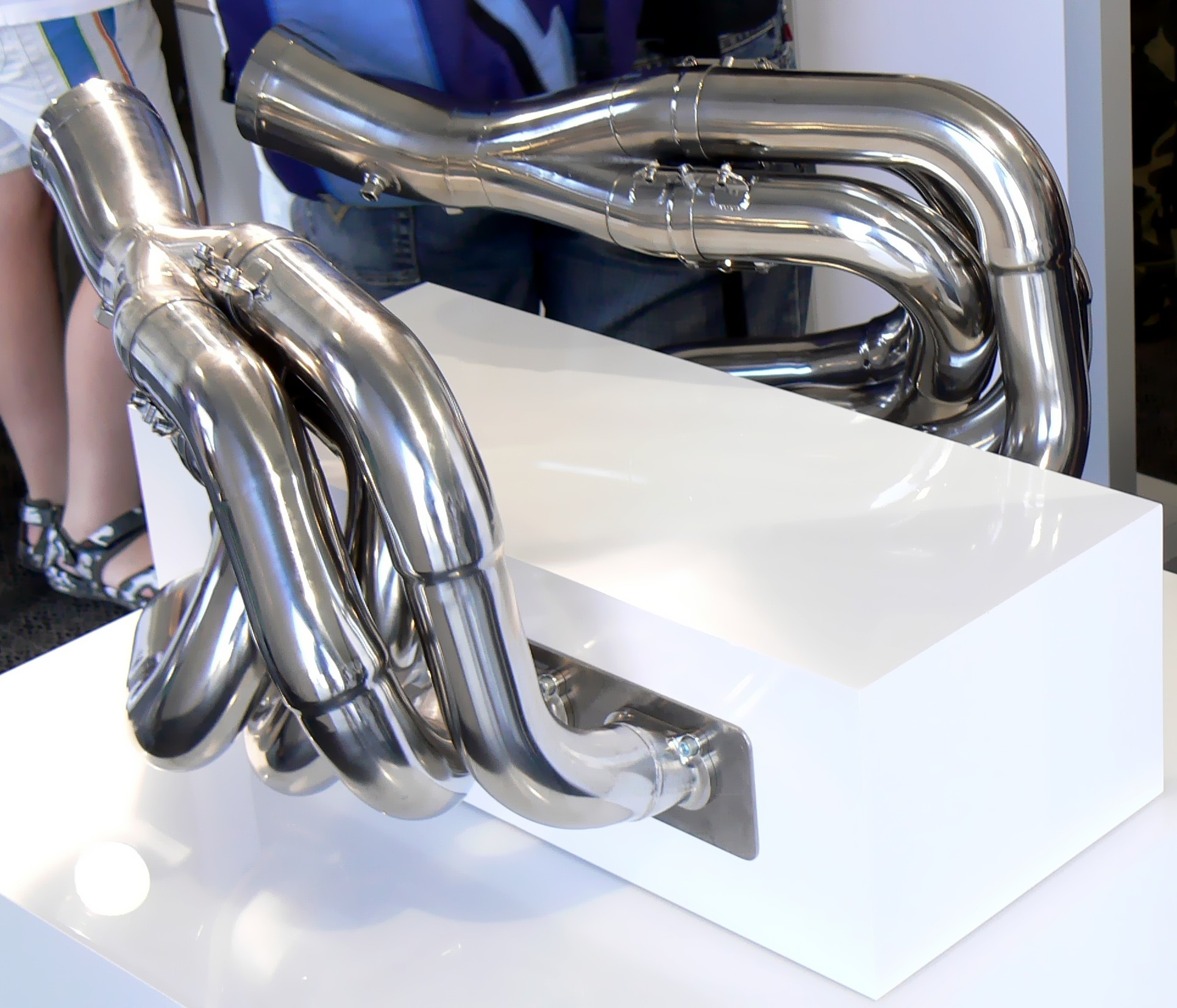 BMW V8 exhaust system, probably from F1.06. Photographed during BMW Sauber F1 Team Pit Lane Park in Warsaw, Poland.